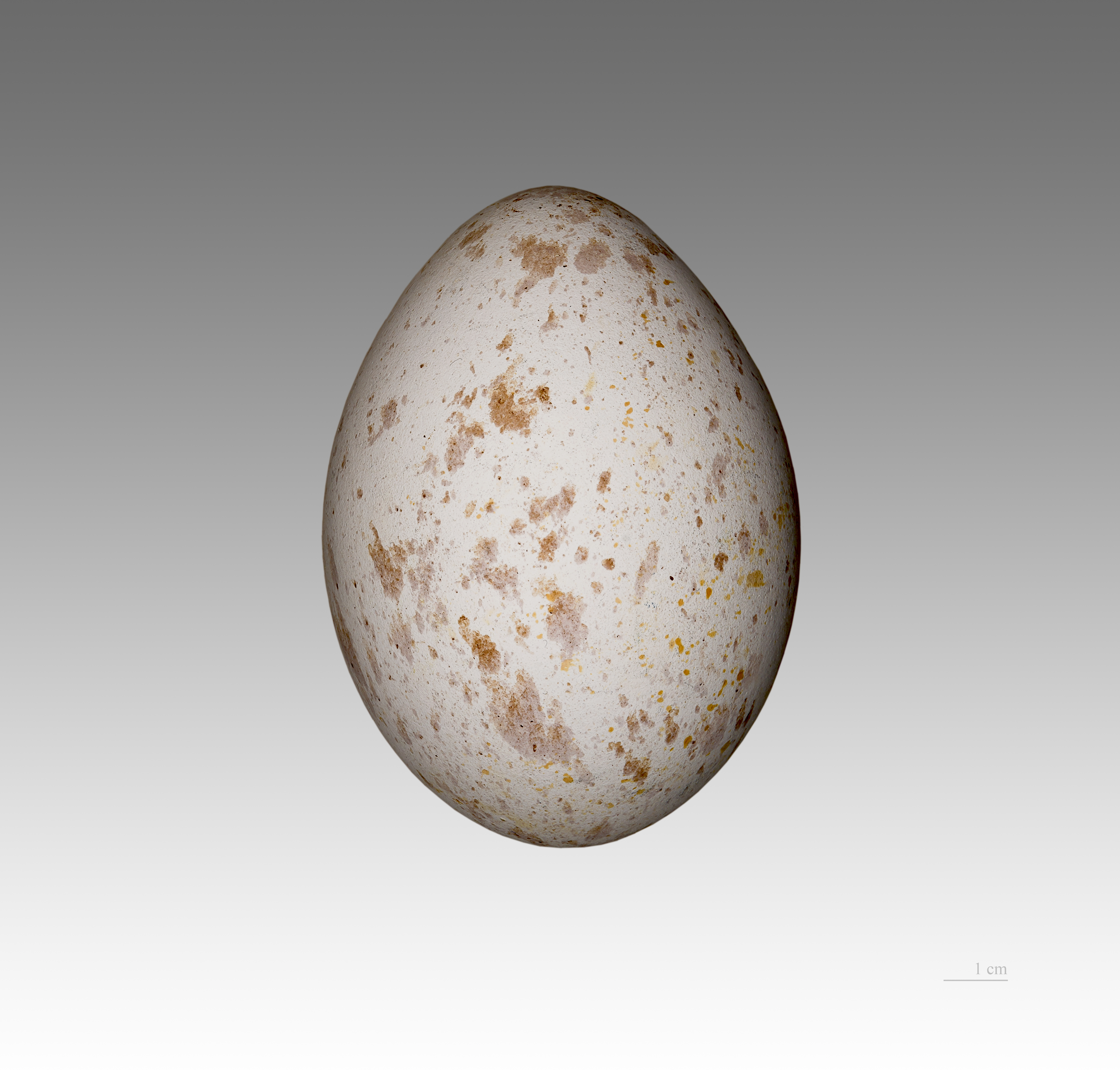 Egg of White-backed Vulture. Collection of René de Naurois /Jacques Perrin de Brichambaut. Locality: Northwest Senegal].